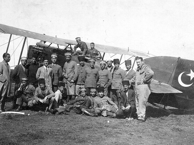 Breguet 14 in Turkish service during the War of Independence